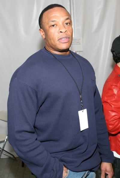 Dr. Dre, backstage at Pussycat Dolls in Los Angeles